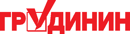 Official logo of the Pavel Grudinin presidential campaign, 2018